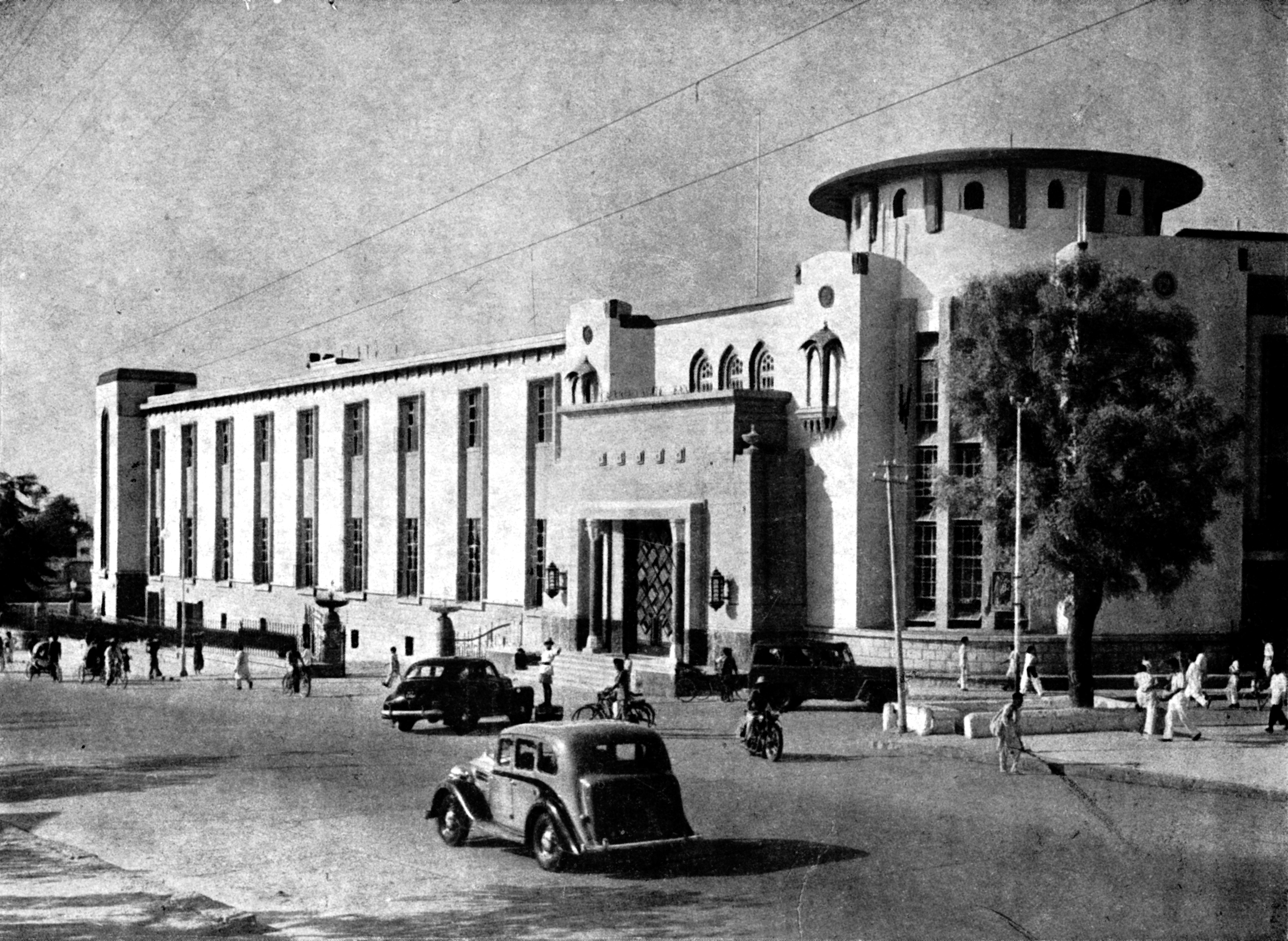 Main building, State Bank of Hyderabad 1955. Formerly Hyderabad State Bank